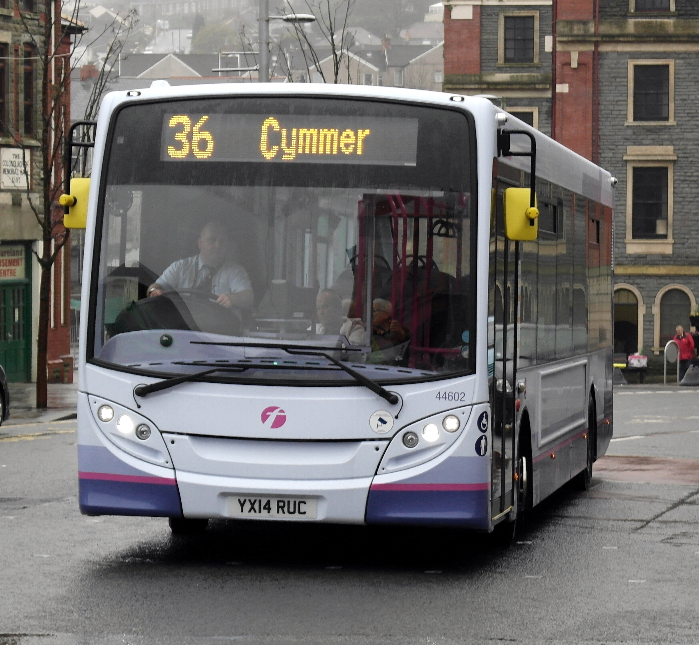 A First Cymru Enviro 200 bus, shown in Maesteg operating a service to Cymmer.